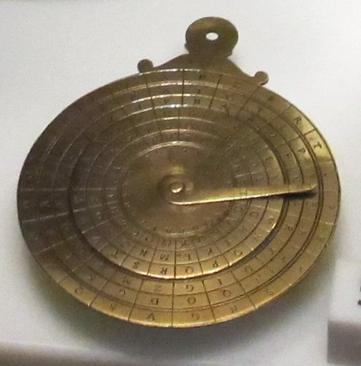 Ciphering device.